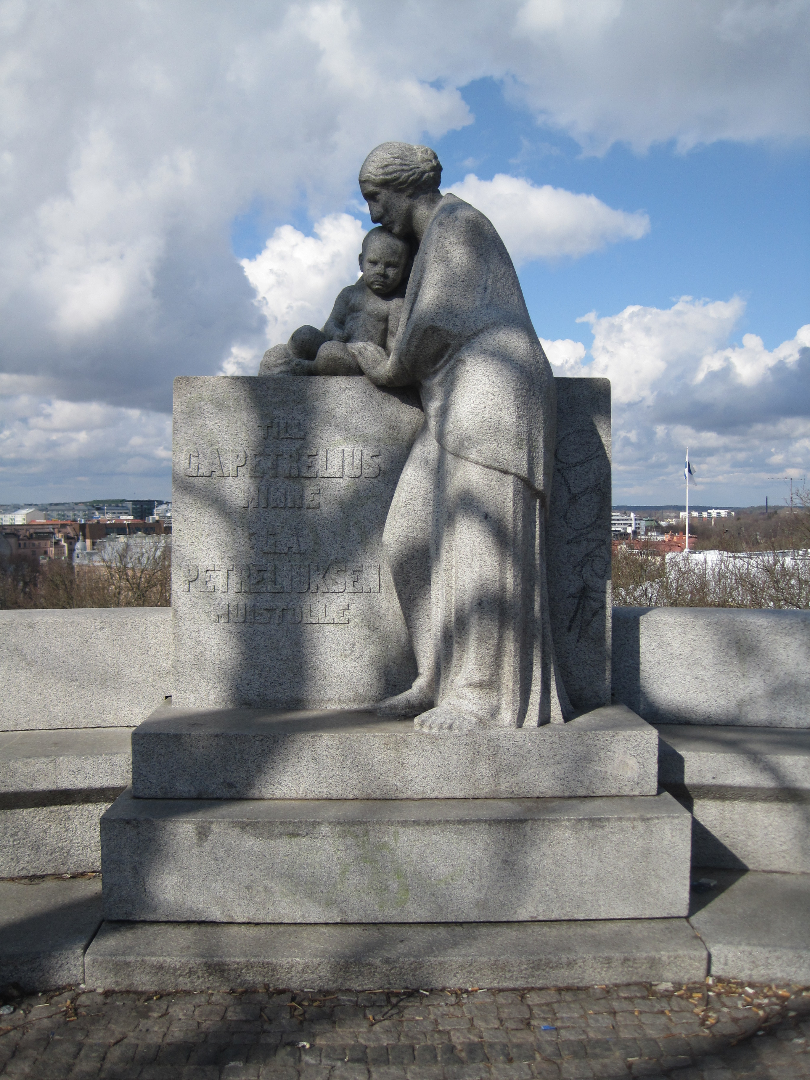 Felix Nylund (1878–1940): G.A. Petreliuksen muistomerkki “Äiti ja lapsi”, Turku, Finland check usage